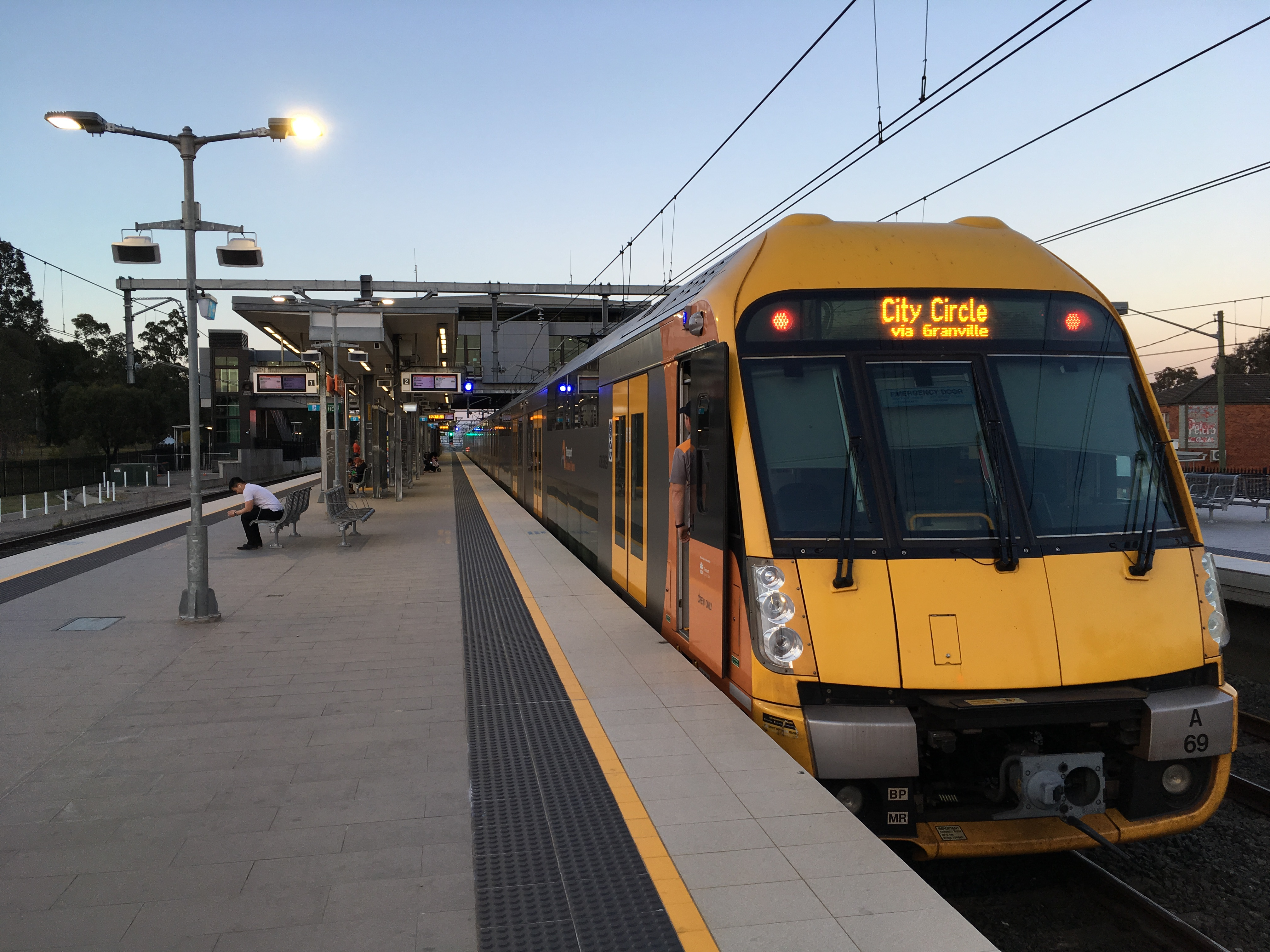 A Sydney Trains A Set operating a T2 Airport, Inner West & South Line service to Central railway station and the City Circle , pictured during a stop at Glenfield railway station. The "T2" service as was operating when this photograph was taken has since been succeeded by two services operating the Airport, Inner West & South Line's former route: the T2 Inner West & Leppington Line, and the T8 Airport & South Line, which both began operation on 26 November 2017. The train depicted in this photograph would be traversing a T2 Inner West & Leppington Line route.